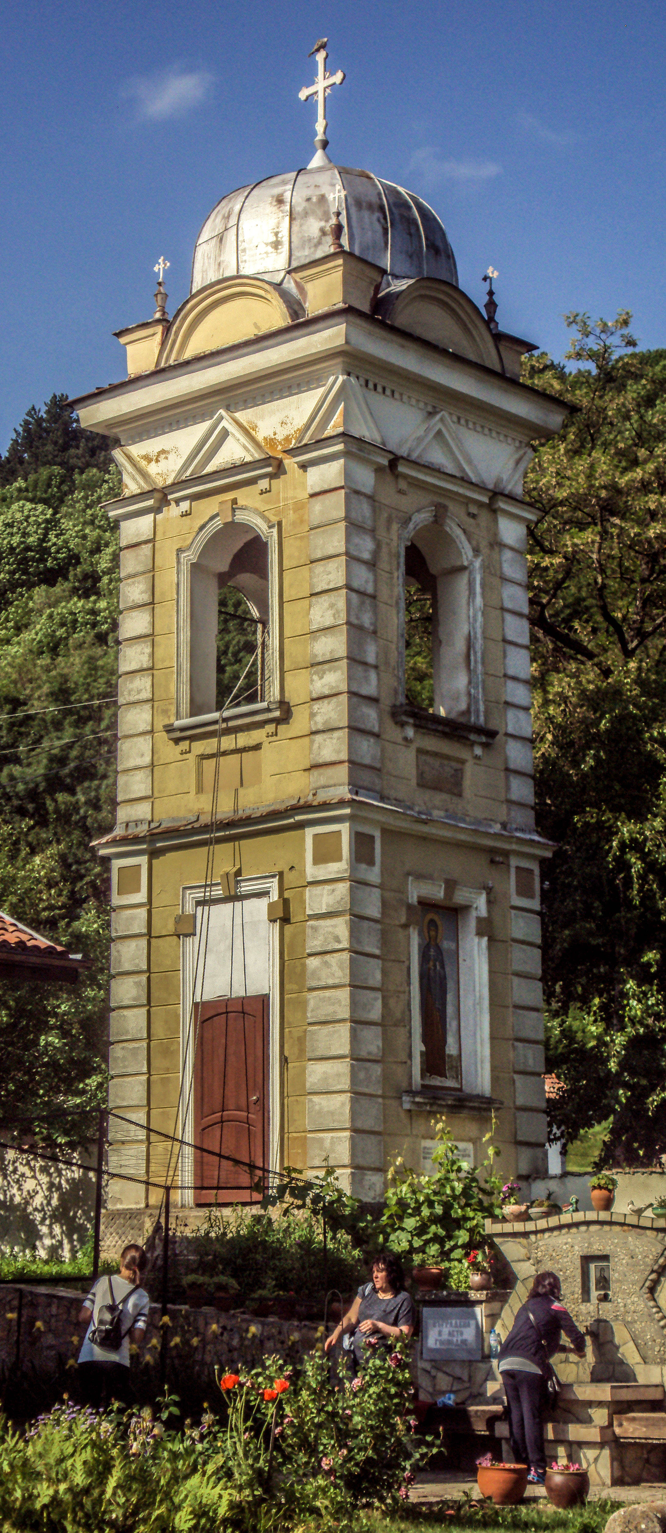 The old church "St Petka" in Breznik, Bulgaria